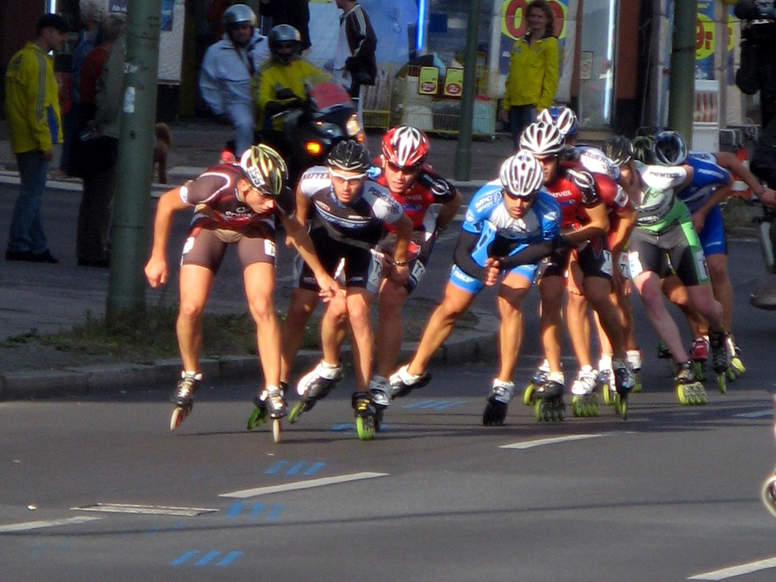 Berlin Inline-Marathon 2008, leaders at Kilometer 24